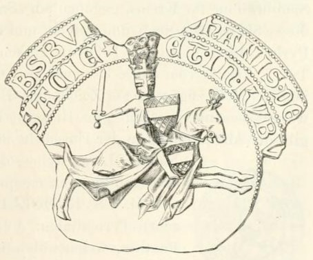 John Parricida